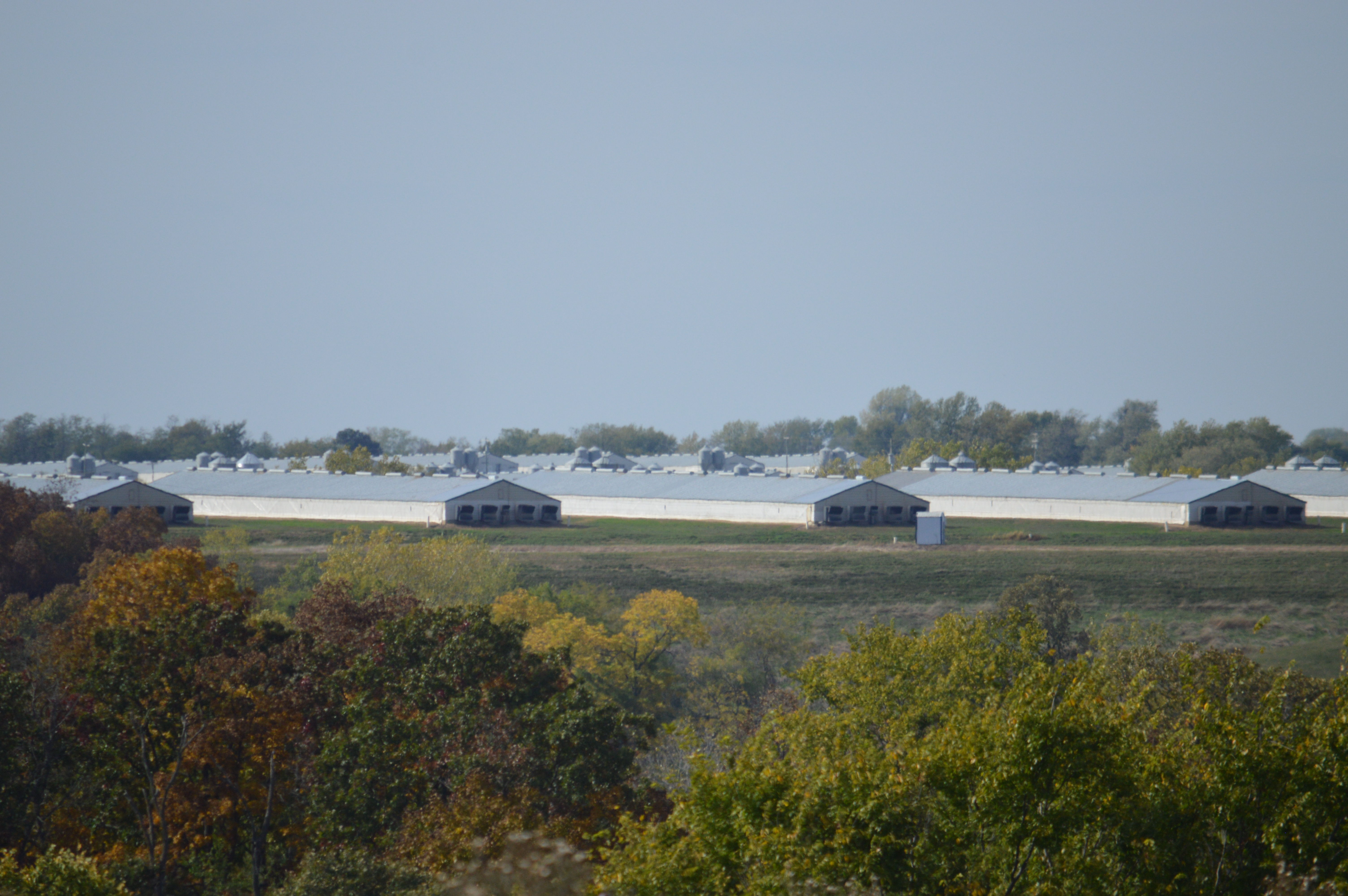 Concentrated animal feeding operation (CAFO), Unionville, Missouri, United States, owned by Smithfield Foods